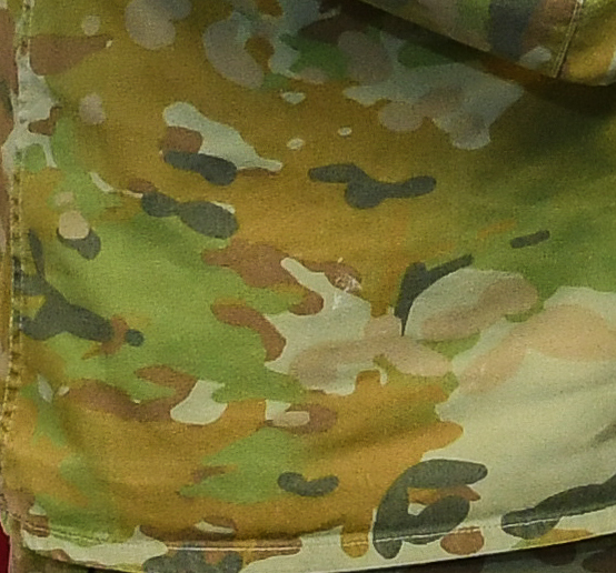 U.S. Army Chief of Staff Gen. Mark A. Milley hosts Lt. Gen. Angus Campbell, Australian Chief of Army, during an office call in the Pentagon, Arlington, Va., June 15, 2017. (U.S. Army photo by Sgt. Jamill Ford)